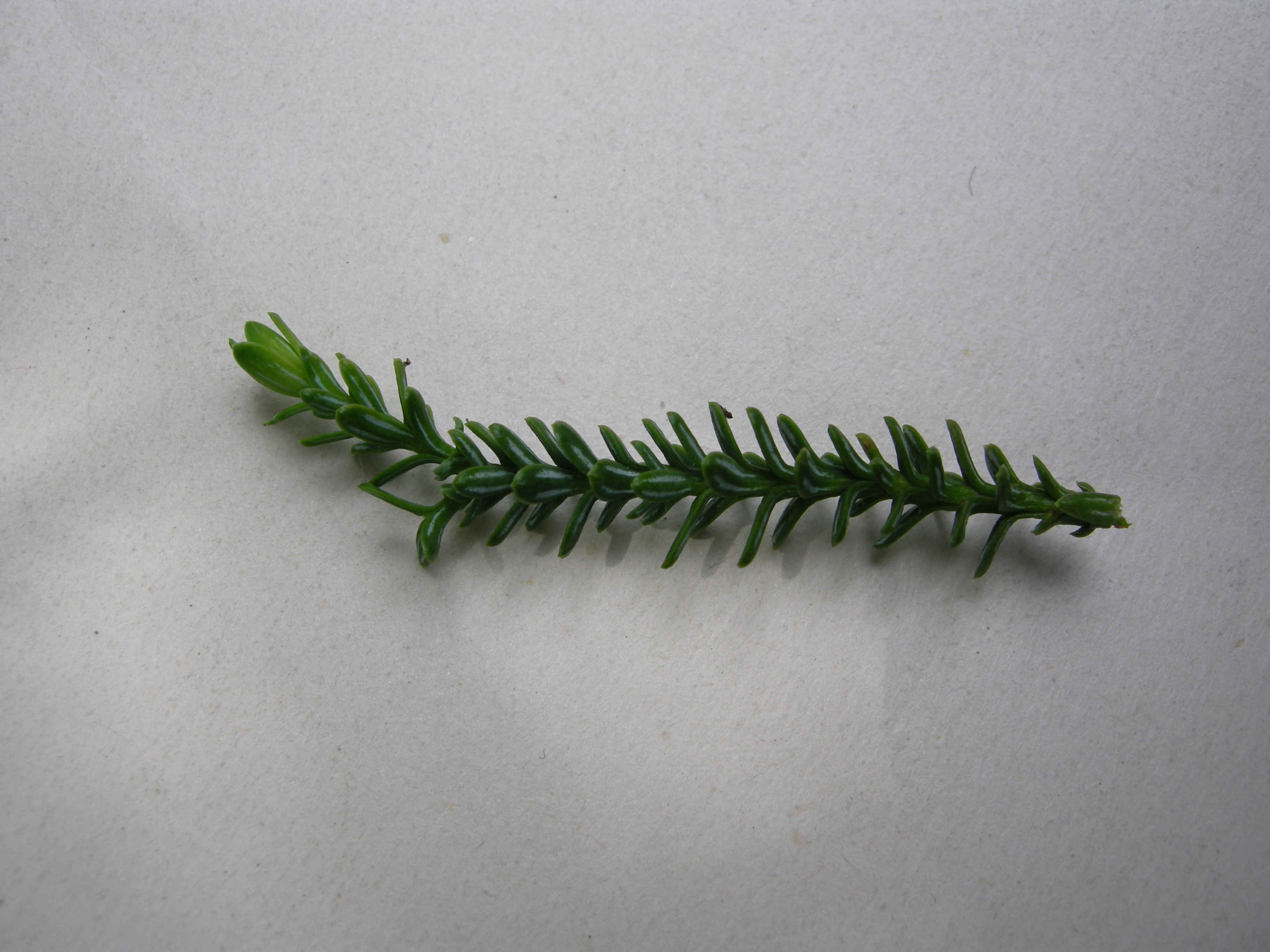 Branch of Fitzroya cupressoides. Picture taken in Los Alerces National Park (Chubut province, Argentina).